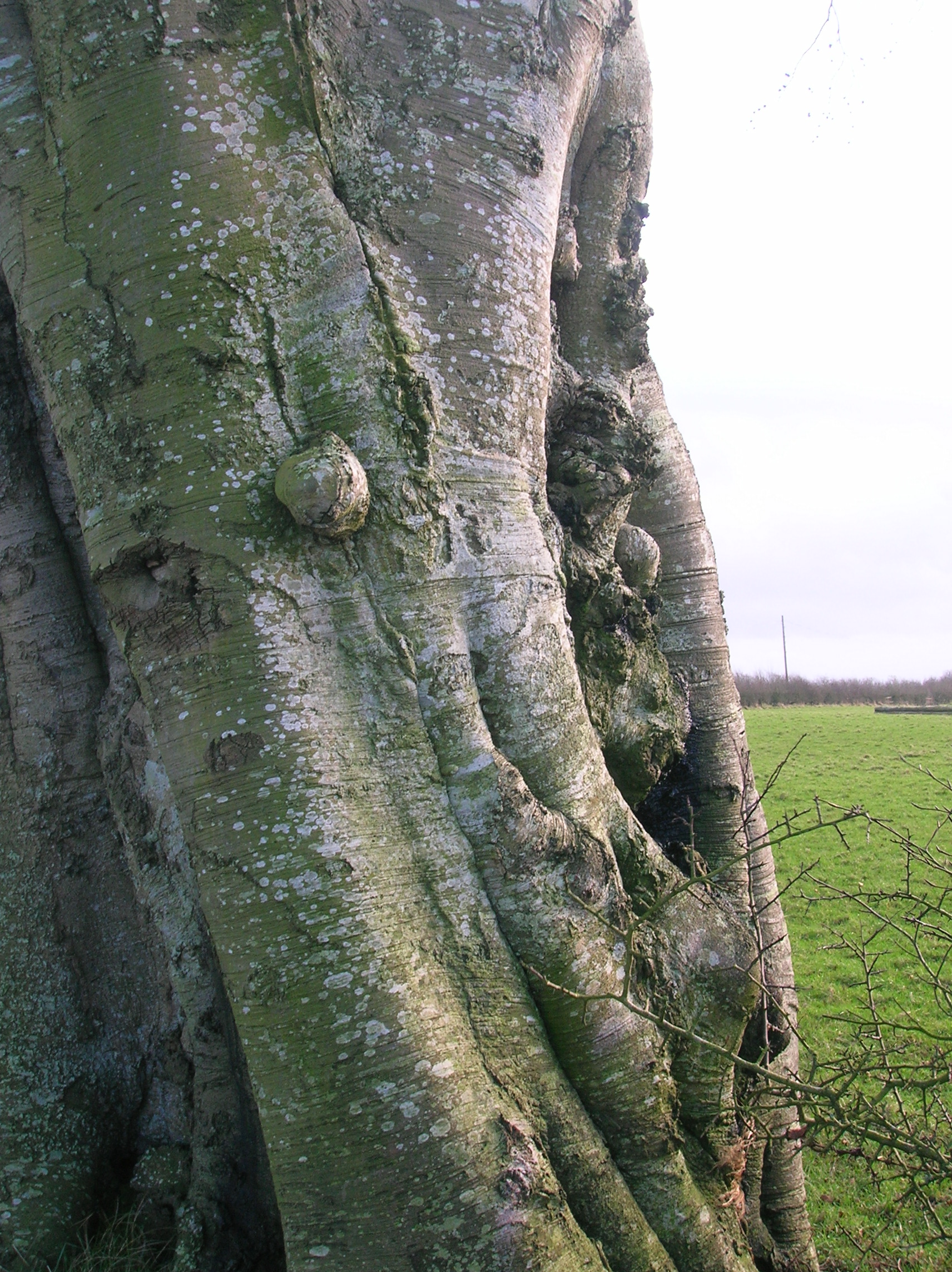 Beech tree with burrs and canker, Ayrshire, Scotland.